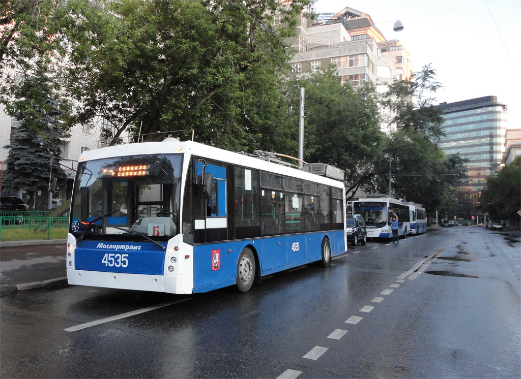 TROLZA trolleybus in Moscow - World's largest trolleybus system.